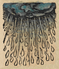 Woodcut from the Nuremberg Chronicle